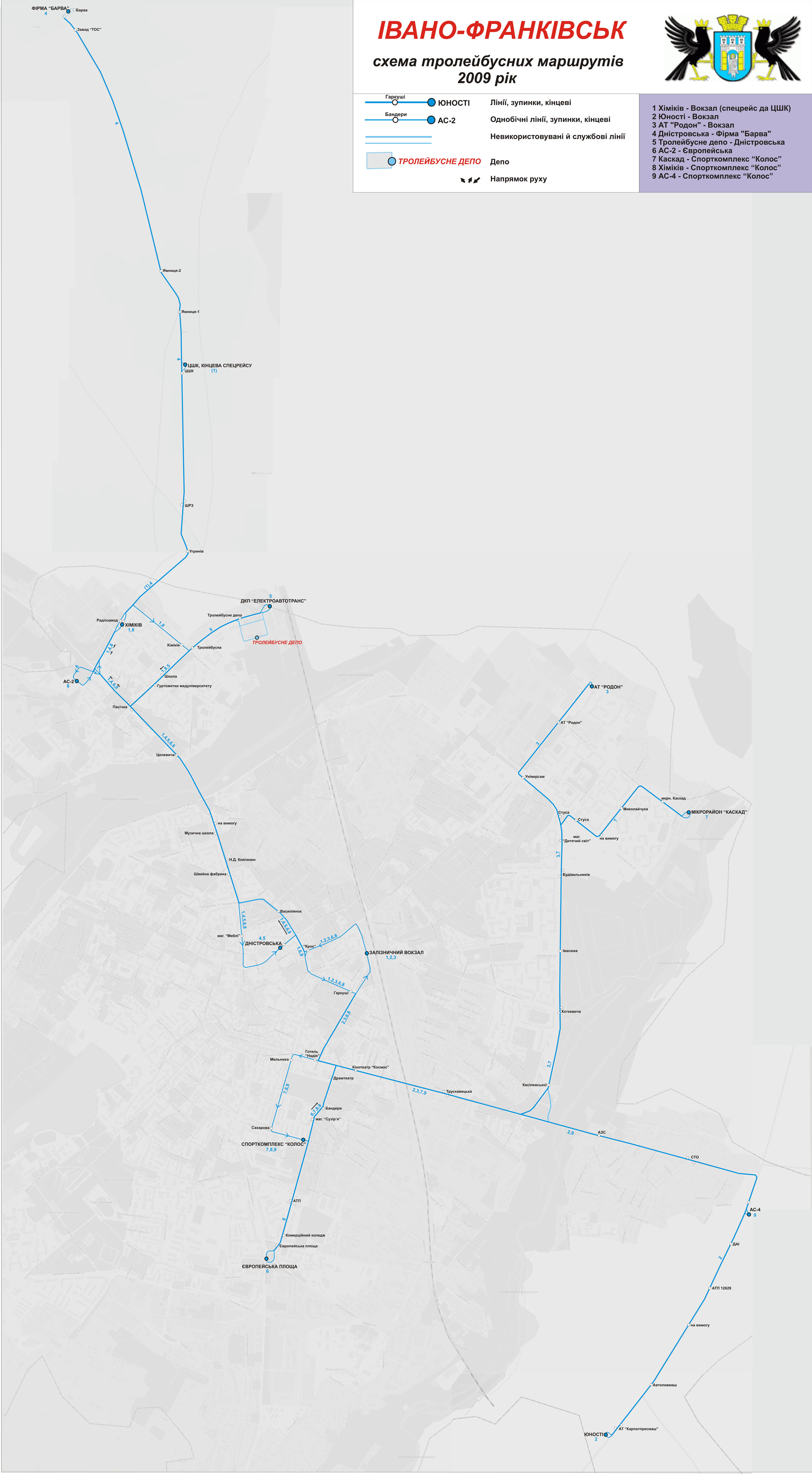 Trolleybus map of Ivano-Frankivsk, Ukraine. 2009